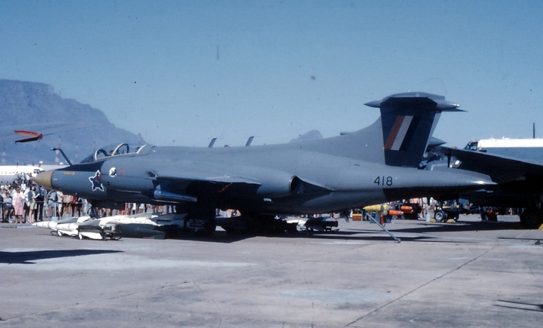 Buccaneer no. 418 at AFB Ysterplaat during SAAF 50